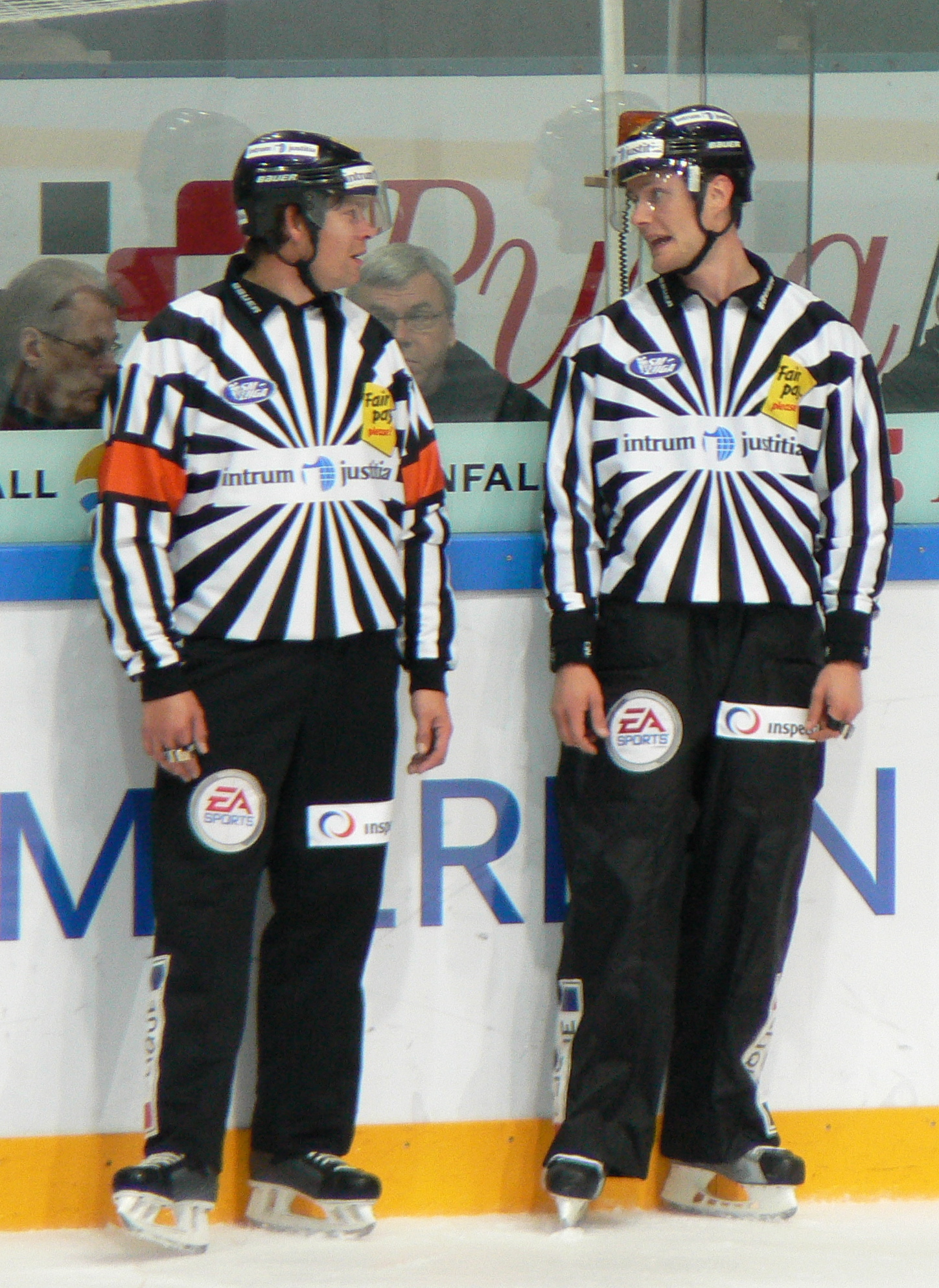 Finnish ice hockey referee Tom Laaksonen with linesman Jussi Terho in an SM-liiga game in September 2007.